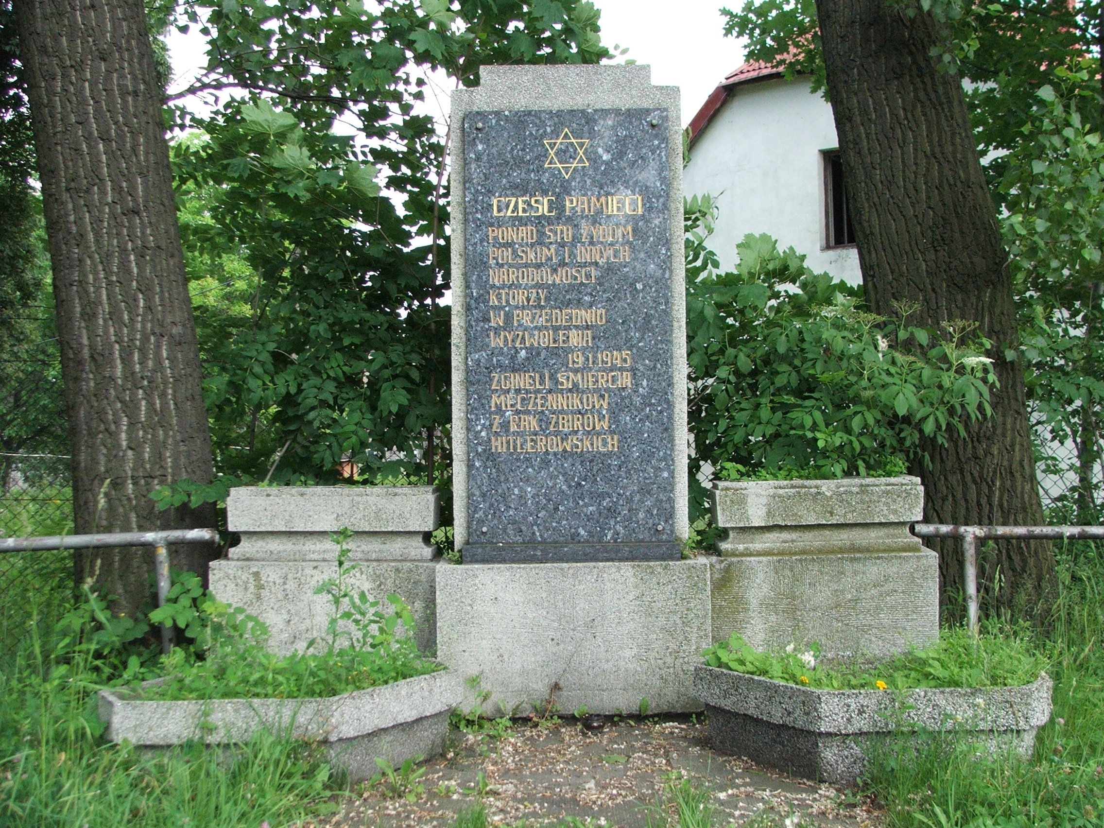 The Statue of more then 100 Polish Jews died in 1945 in Czechowice-Dziedzice.